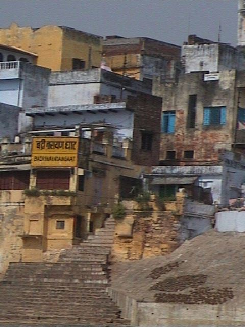 Hindu culture, have attributed supreme importance to the preservation of tradition Classical civilizations, and especially the Indian one, have attributed supreme importance to the preservation of tradition. Its central idea was that social institutions, scientific knowledge and technological applications need to use "heritage" as a "resource". Using contemporary language, we would say that ancient Indians considered, as social resources, both economic assets (like natural resources and their exploitation structure) and factors promoting social integration (like institutions for preserving knowledge and maintaining civil order). Ethics considered that what had been inherited should not be consumed, but should be handed over, possibly enriched, to successive generations. This was a moral imperative for all, except in the final life stage of sannyasa